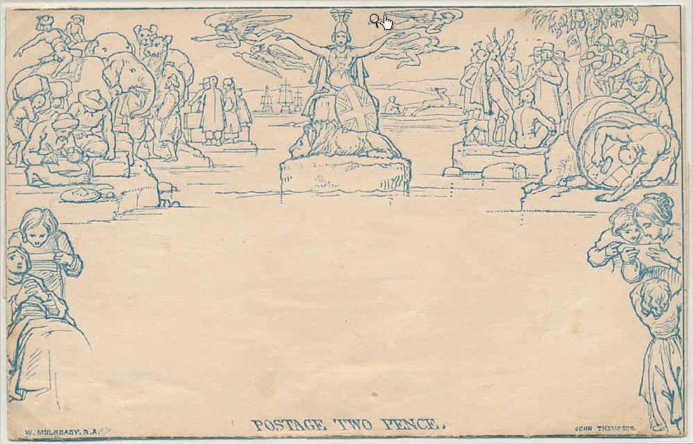 Great Britain 1840. Two Pence unused Mulready letter sheet, blue, form a96.